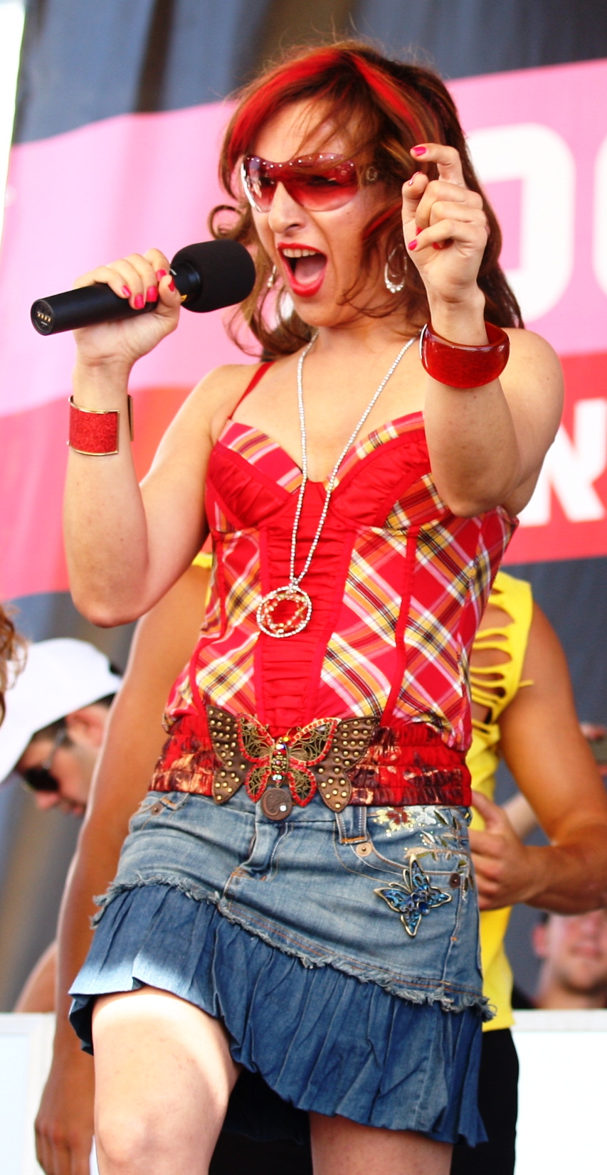 Aderet is an Israeli entertainer who performs pop and dance tracks